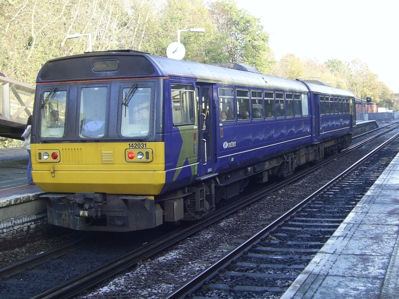 142031 stands at Hunts Cross station, painted in the FNW gold stars livery.